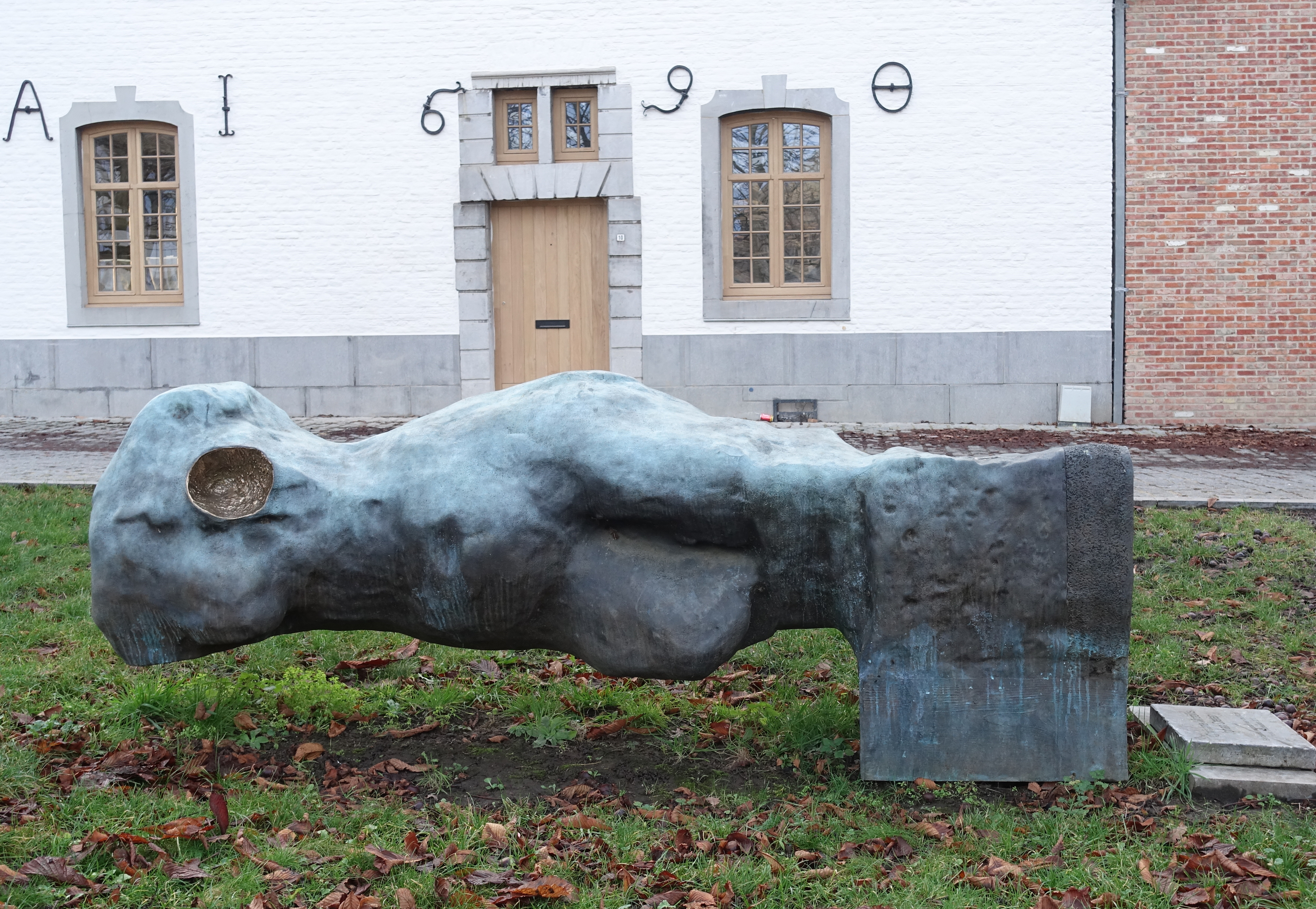 Sculpture 'Christina Mirabilis' from 2012 by Johan Creten in the Beguinage of Sint-Truiden (Belgium)